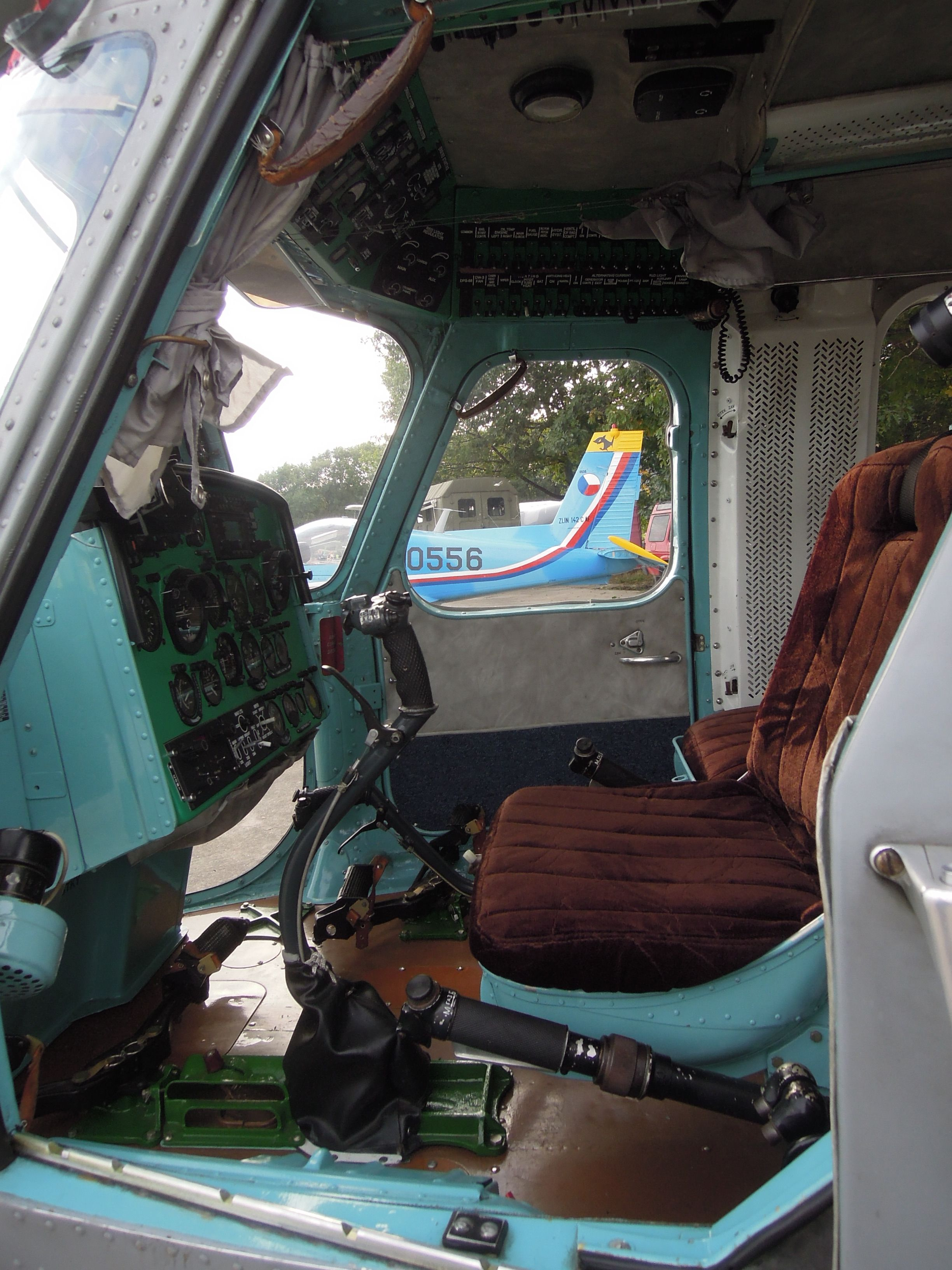 Helicopter Mil Mi-2, photo was taken during 2012 NATO Days in Leoš Janáček Airport Ostrava, Czech Republic